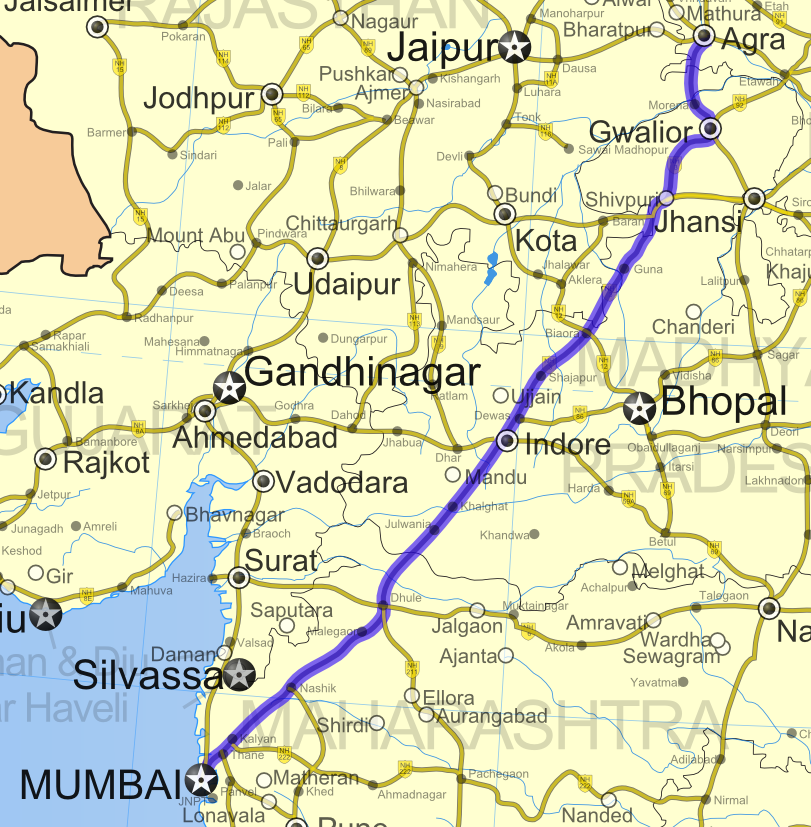 National Highway 3 in India